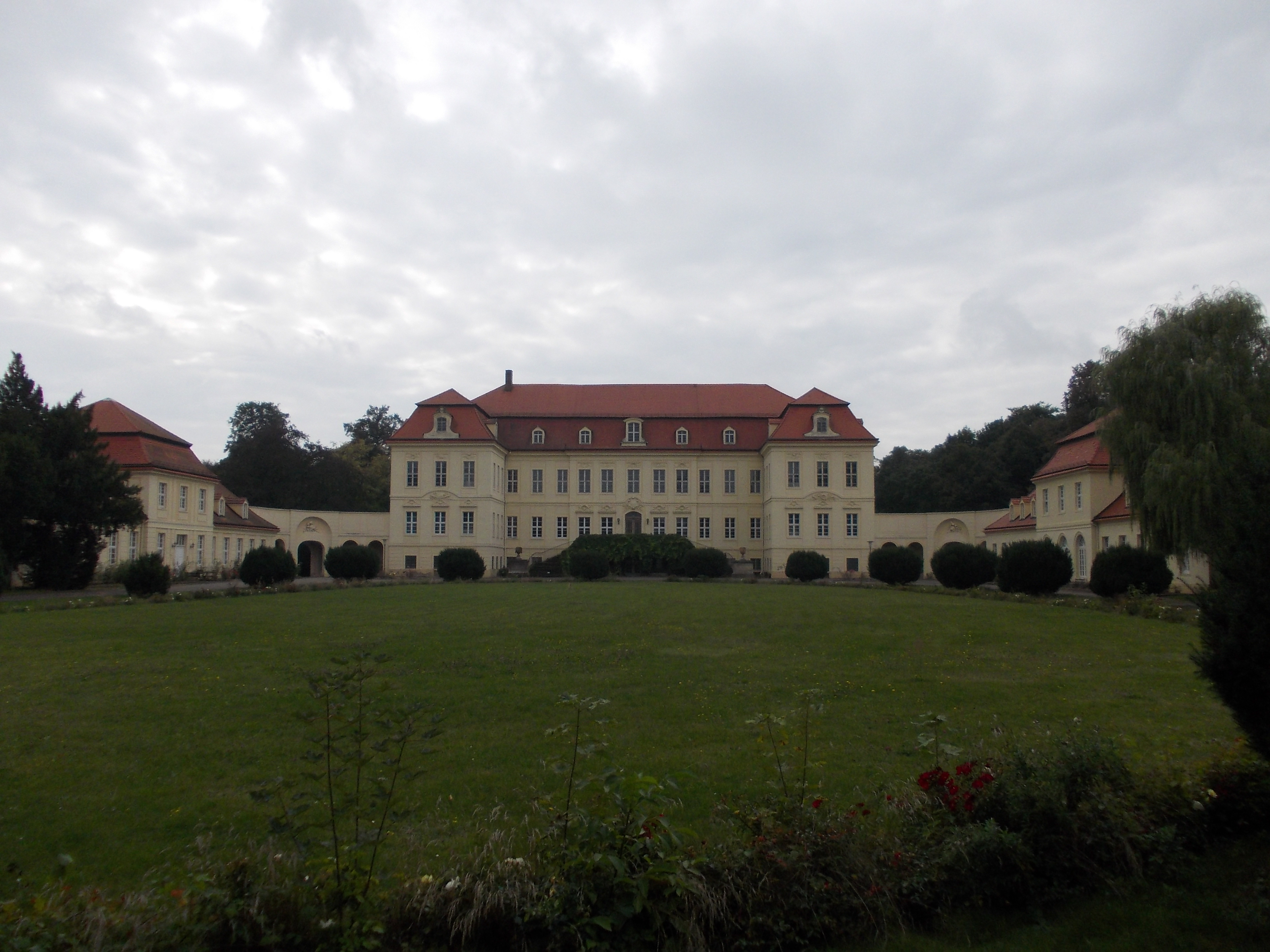 Nischwitz Castle (Thallwitz, Leipzig district, Saxony)